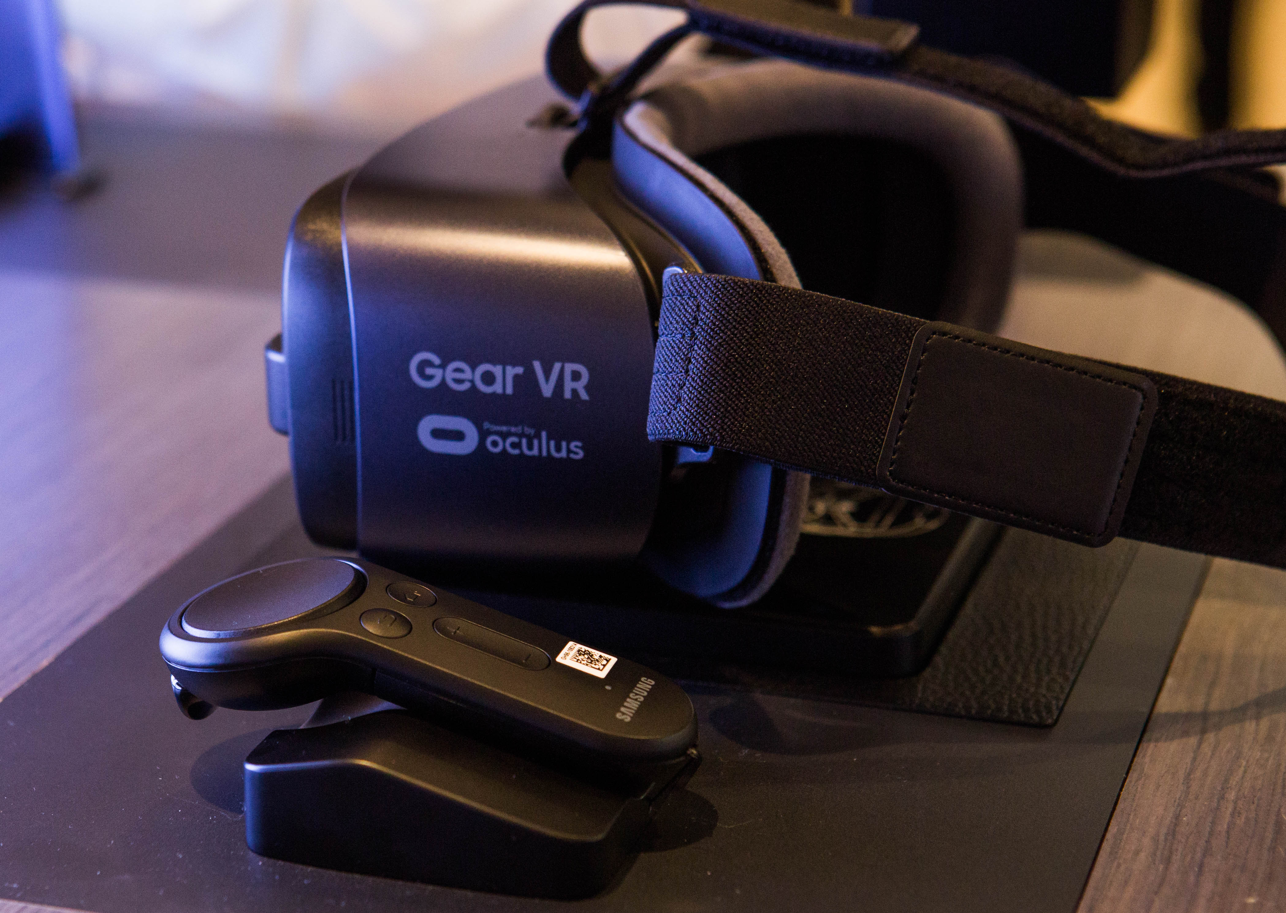 Samsung Unpacked 2017 Galaxy S8 Launch Event